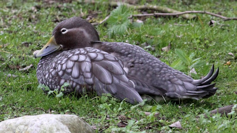 Flying Steamer Duck (Tachyeres patachonicus) This image was created by Ken Billington. If you are interested in a high resolution copy of this image, please contact the author Ken Billington in order to negotiate conditions of use. Do not copy this image illegally by ignoring the terms of the license below, as it is not in the public domain. If you would like special permission to use, license, or purchase the image please contact me to negotiate terms. More free images can be found on Ken Billington's Bird & Wildlife Photography.